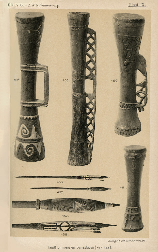 Rouffaer, G.P. et al.: De Zuidwest Nieuw-Guinea-Expeditie, 1904-5, Kon. Ned. Aardrijkskundig Genootschap, Leiden E. J. Brill, 1908 - Plate IX Hand drums and dance staves.